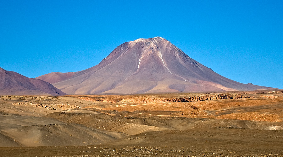 Laguna Verde is a stratovolcano in the Atacama desert, located about 10 km. north of the Lascar Volcano.